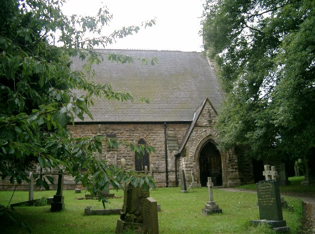 St Mary the Virgin, Micklefield. The parish church of Micklefield.